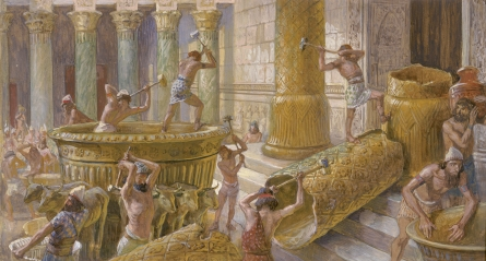 The Chaldees Destroy the Brazen Sea, c. 1896-1902, by James Jacques Joseph Tissot (French, 1836-1902) or followers, gouache on board, 5 3/4 x 10 3/16 in. (14.6 x 25.9 cm), at the Jewish Museum, New York